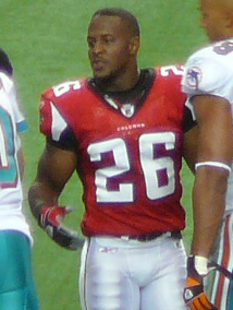 If used somewhere other than Wikipedia, Nelson, by name.